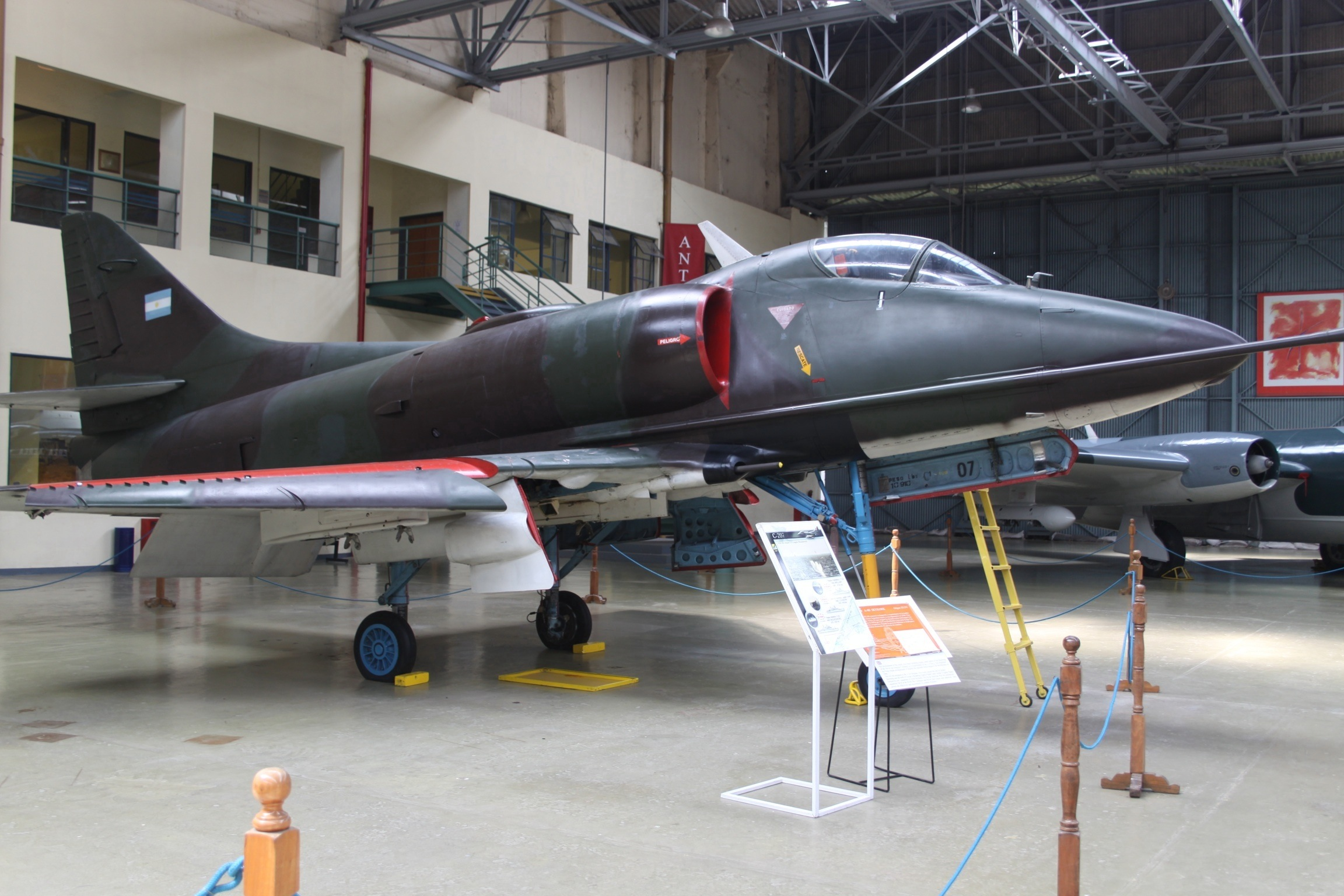 At Moron Museo Nactional De Aeronautica